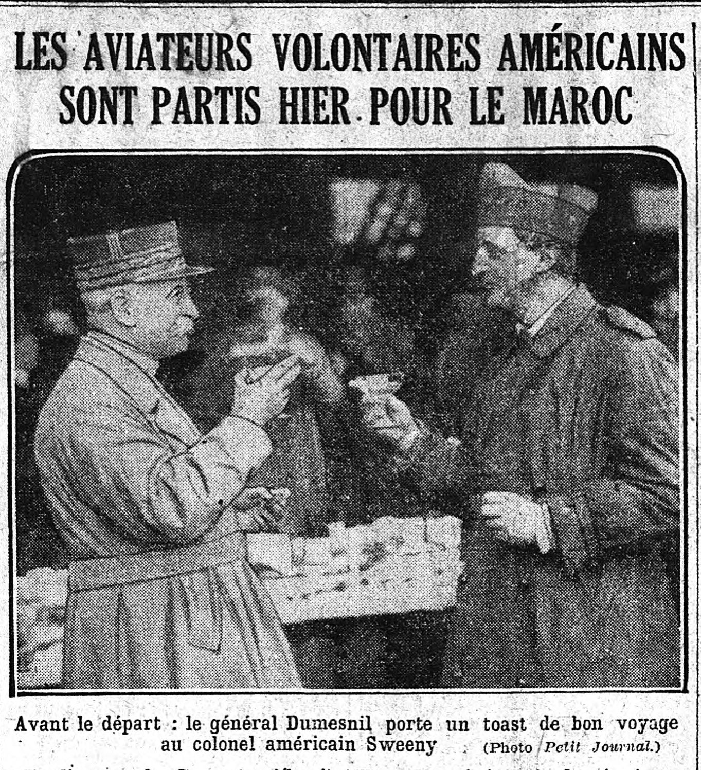 Photo from front page of the Paris edition of Le Petit Journal from August 6, 1925 of General Dumesnil of France and Colonel Sweeny of the United States. Colonel Sweeny organized the "Escadrille Cherifienne," a volunteer squadron of rogue American pilots that would bombard Chefchaouen, Morocco in service of France September 1925. Text reads: "The American volunteer pilots have left for Morocco / Before departure: General Dumesnil gives the American colonel Sweeny a 'bon voyage' toast."